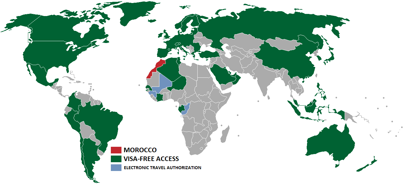 Visa-free policy of Morocco Morocco Visa-free access to Morocco (90 days, except for Hong Kong and Singapore passport holders who may stay up to 30 days) Electronic Travel Authorization